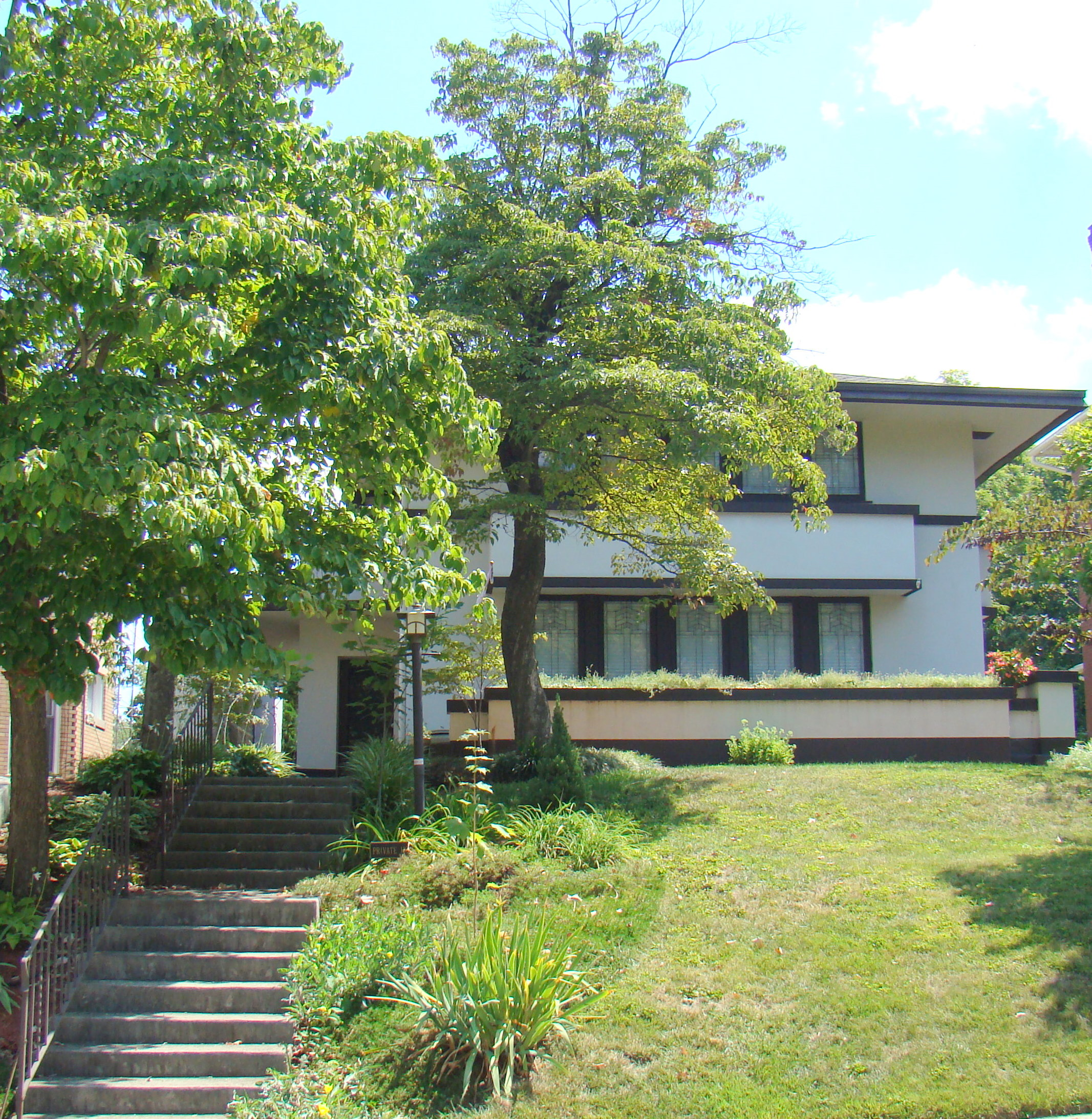 Jesse R. Ziegler House is the only house designed by Frank Lloyd Wright in Kentucky. The house is in Frankfort, Kentucky. The property was added to the US National Register of Historic Places in 1976.